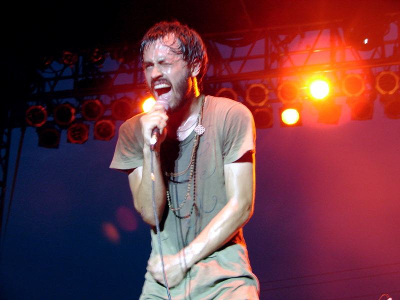 MewithoutYou, performing at Purple Door, 2006